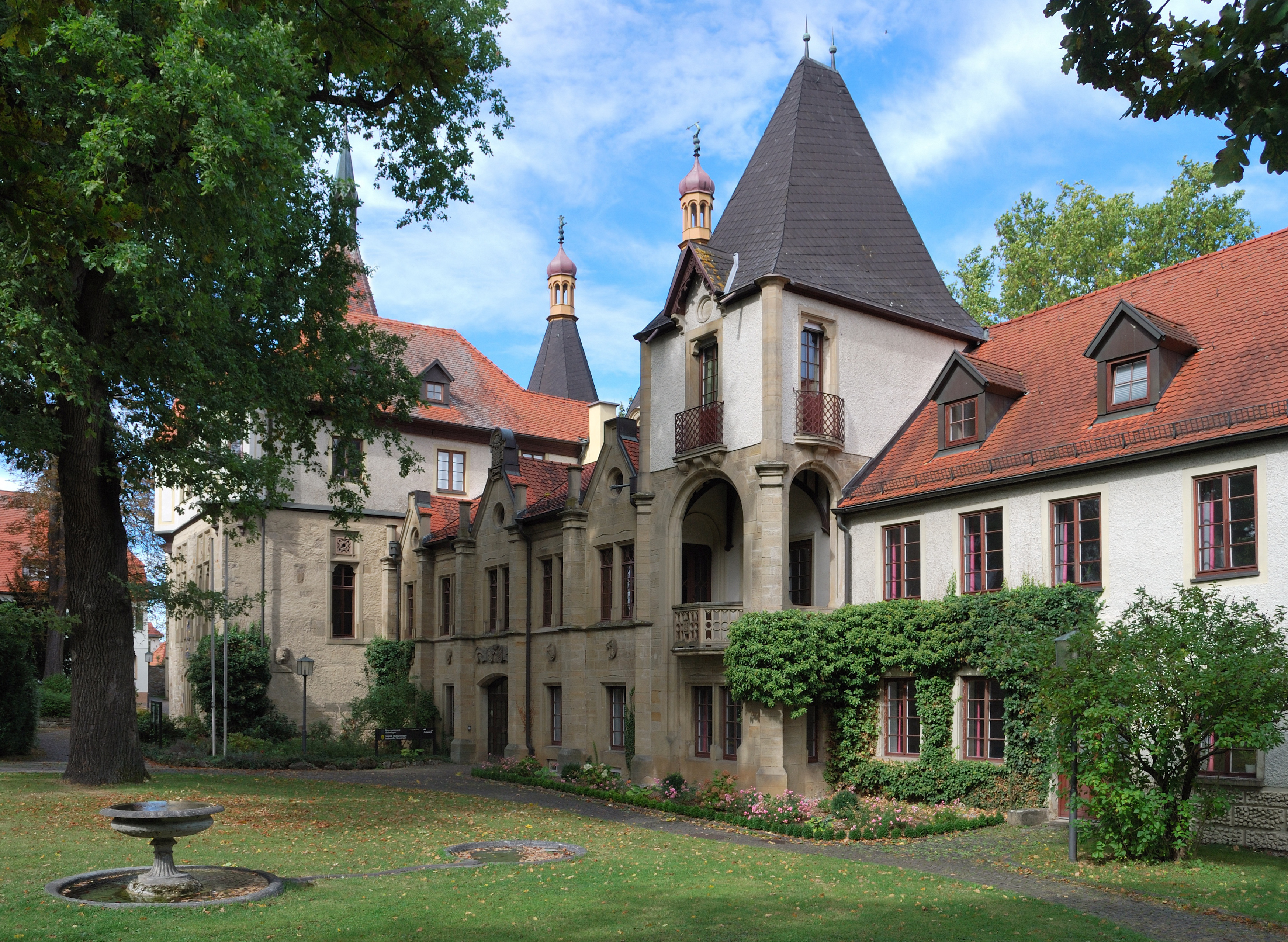 The south side of the castle in Hemmingen in the German Federal State Baden-Württemberg.